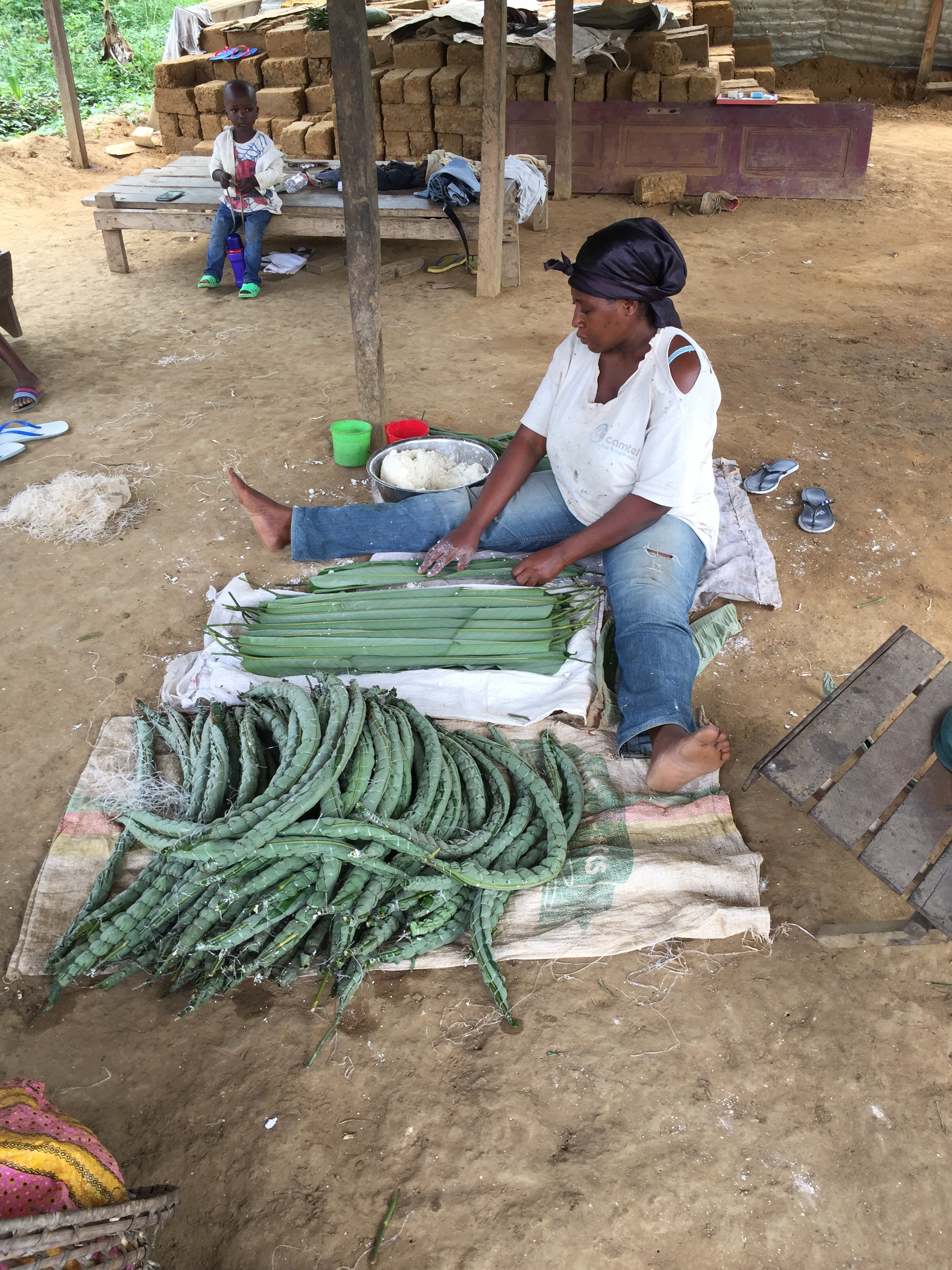 This is an image of "African people at work" from Cameroon